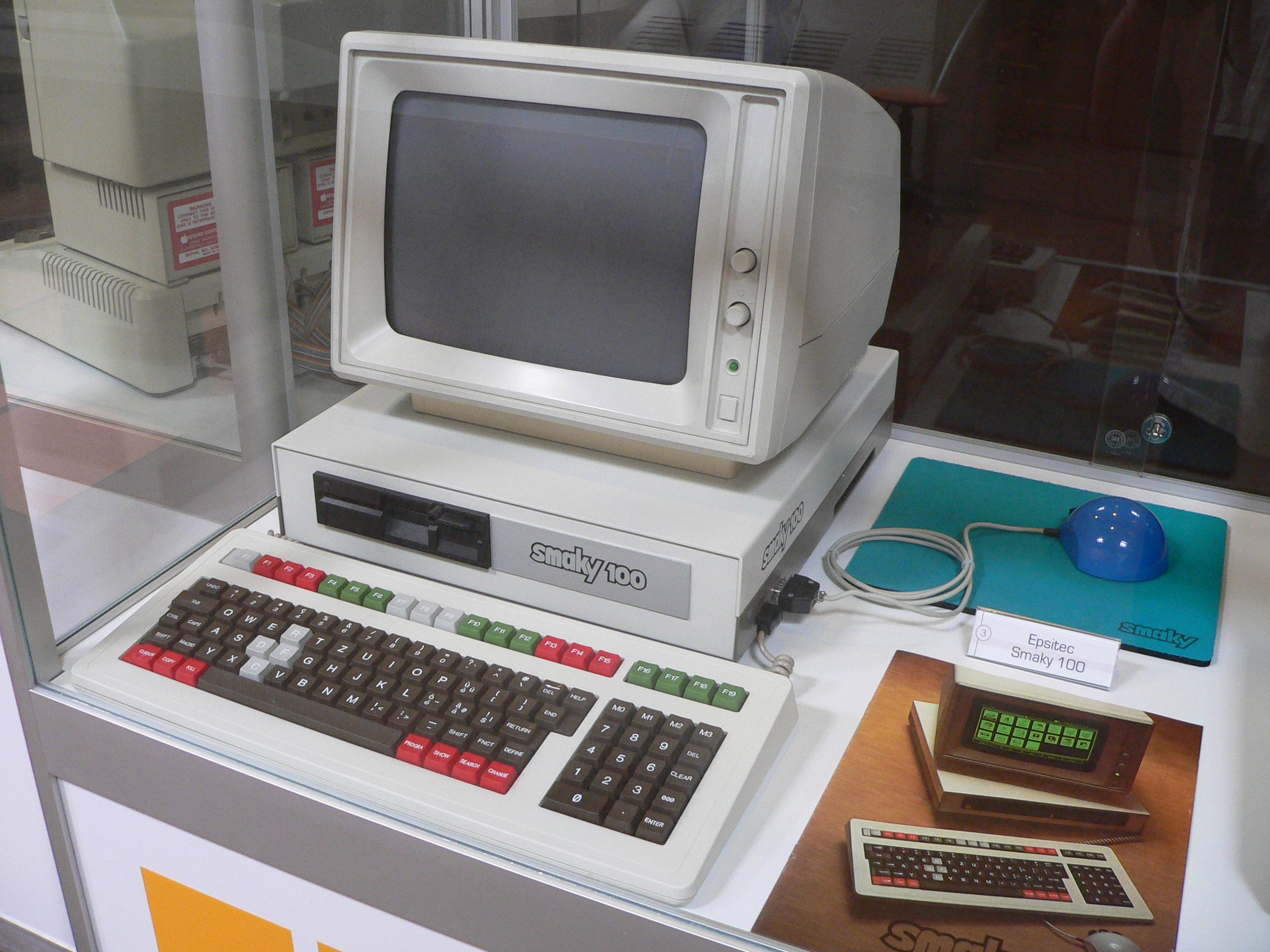 Smaky-100 computer. On display at the Musée Bolo, EPFL, Lausanne.